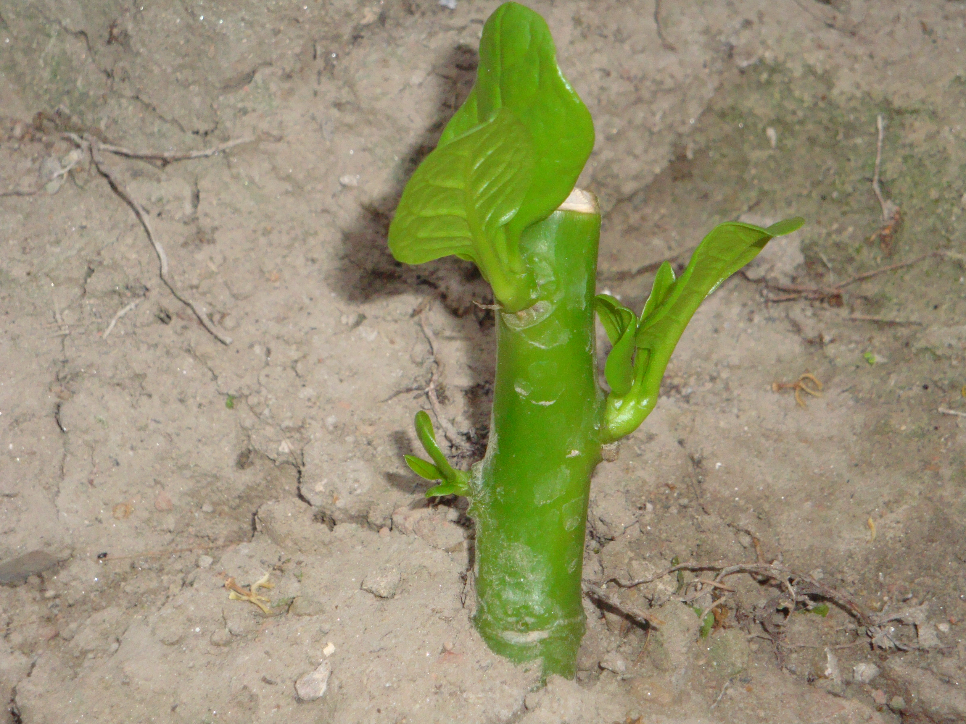 Vegetative growth in plants from stem cuttings